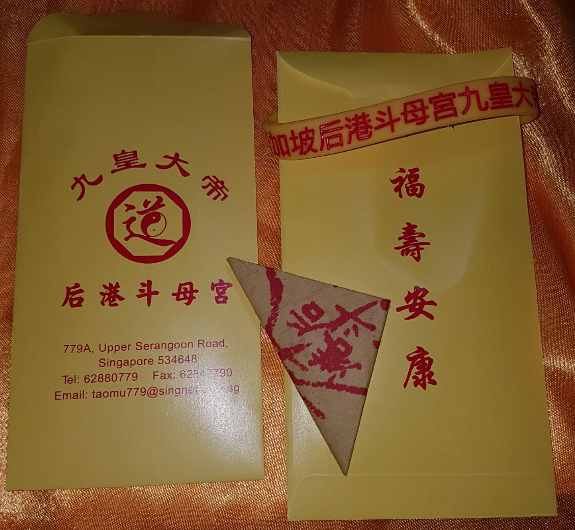 A Taoist amulet of Singaporean origin.